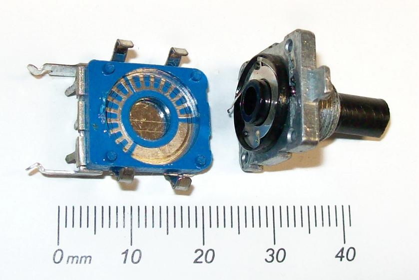 mechanical Rotary Encoder